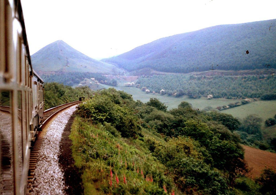 Heart of Wales line near Sugar Loaf looking towards Shrewsbury